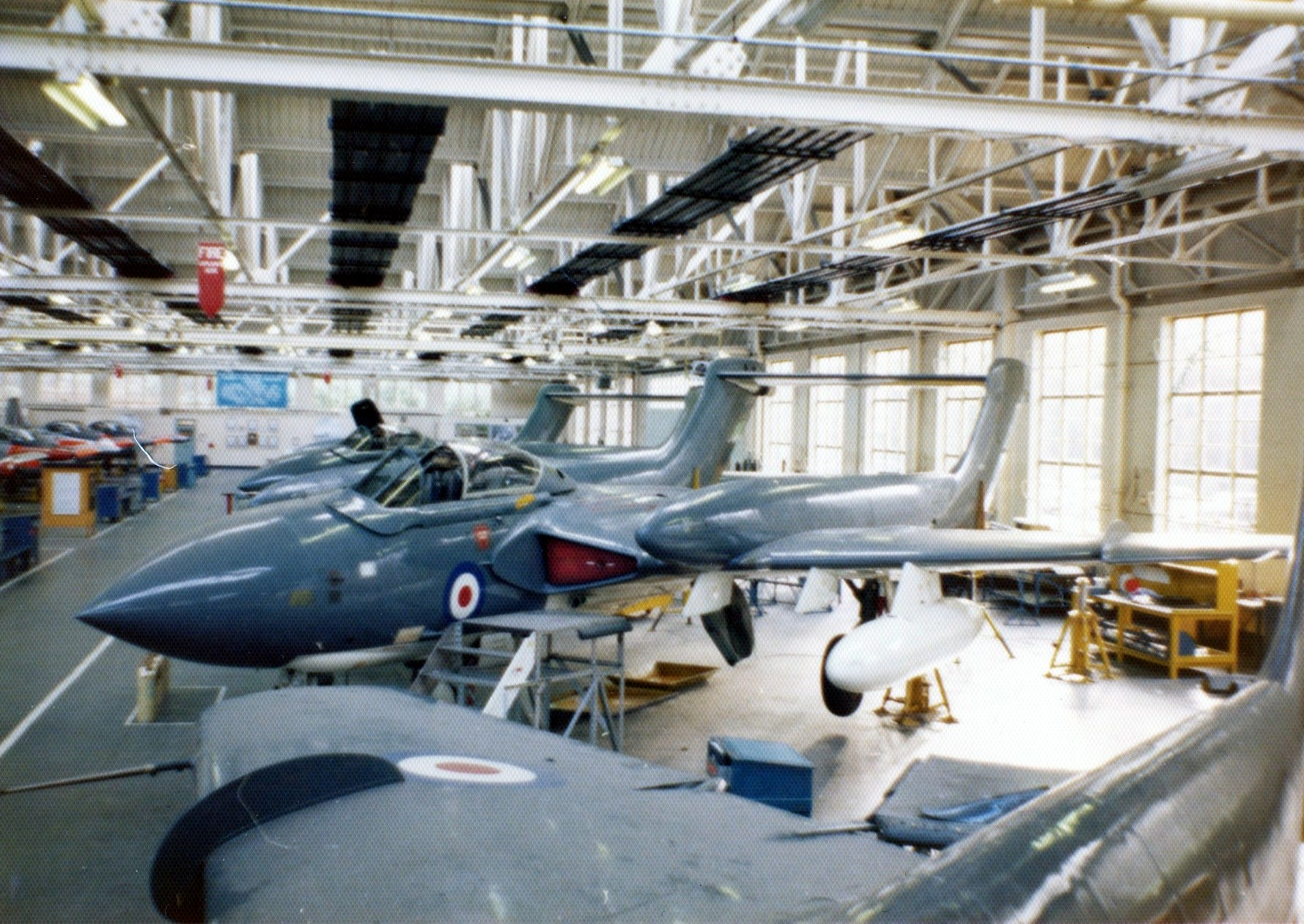 RAF Halton, Sea Vixen FAW 2's in New Workshops.